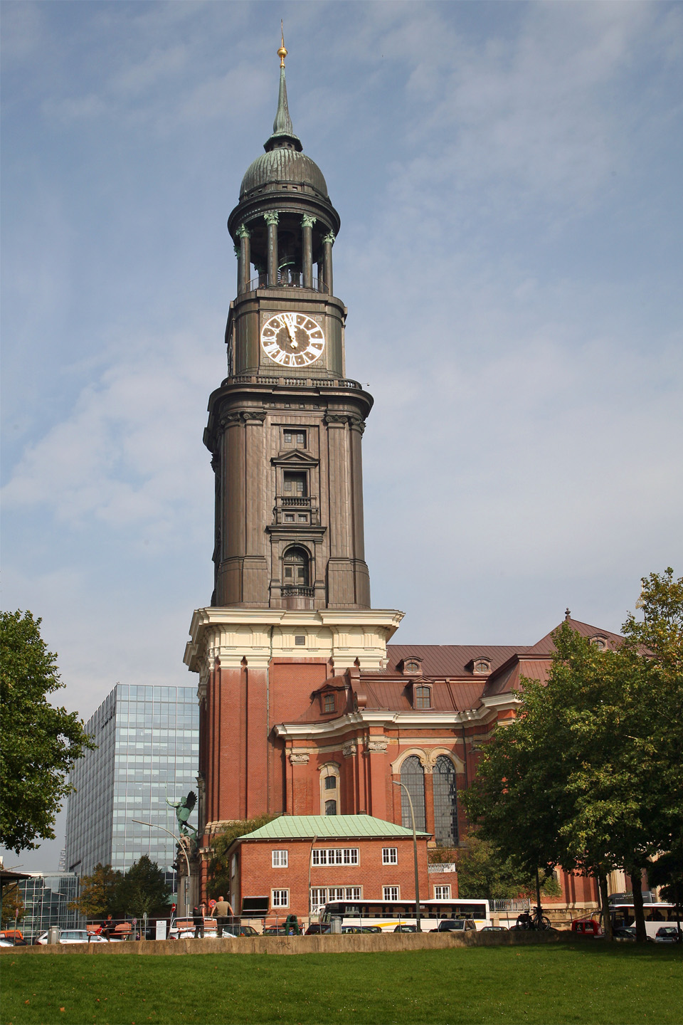 Sankt Michaelis (called Michel) is the main church and the landmark of Hamburg. The striking church tower has an altitude of 132 meters.